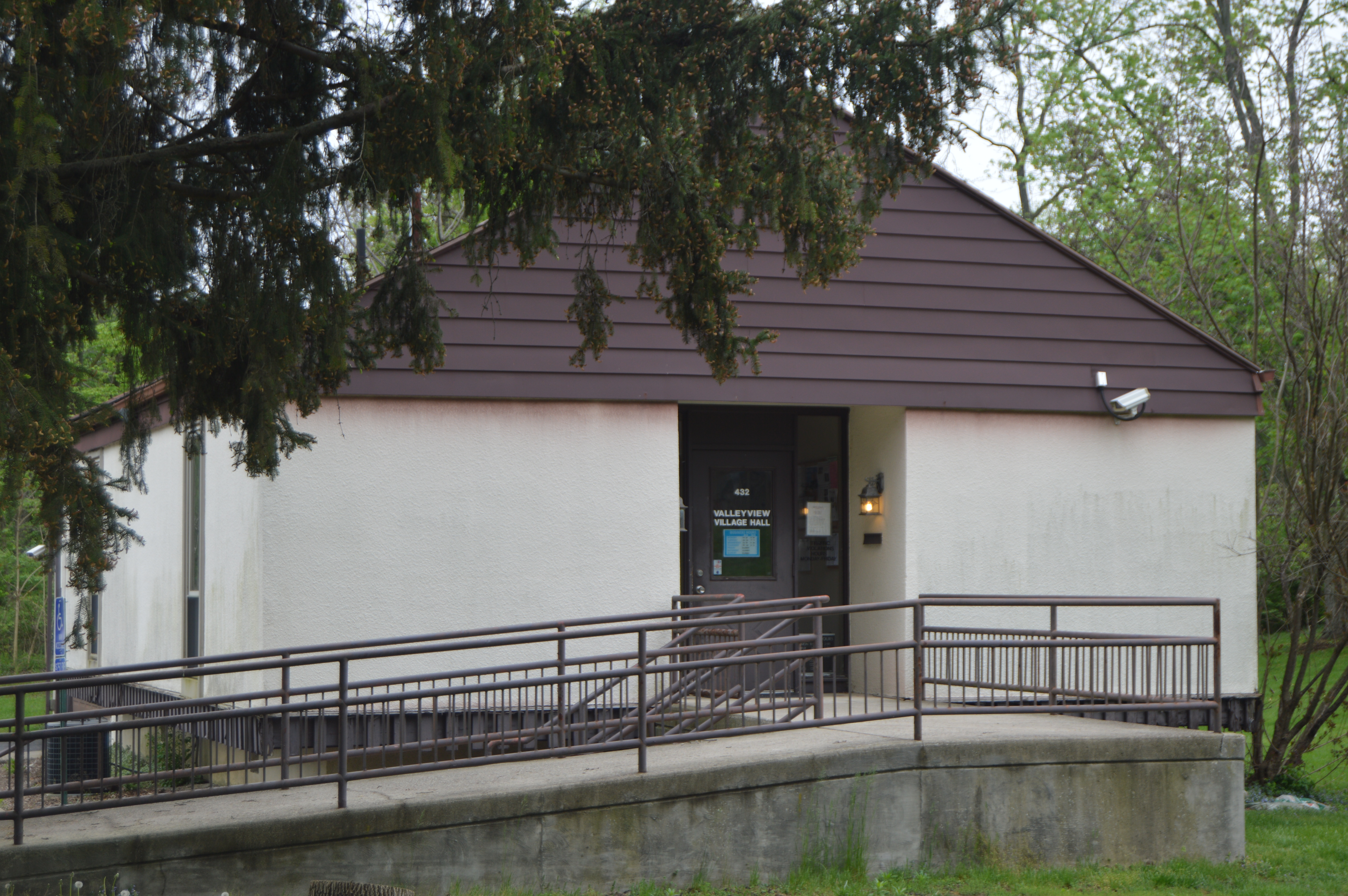 Front of Village Hall in Valleyview, Ohio, United States, located at 432 N. Richardson Avenue.